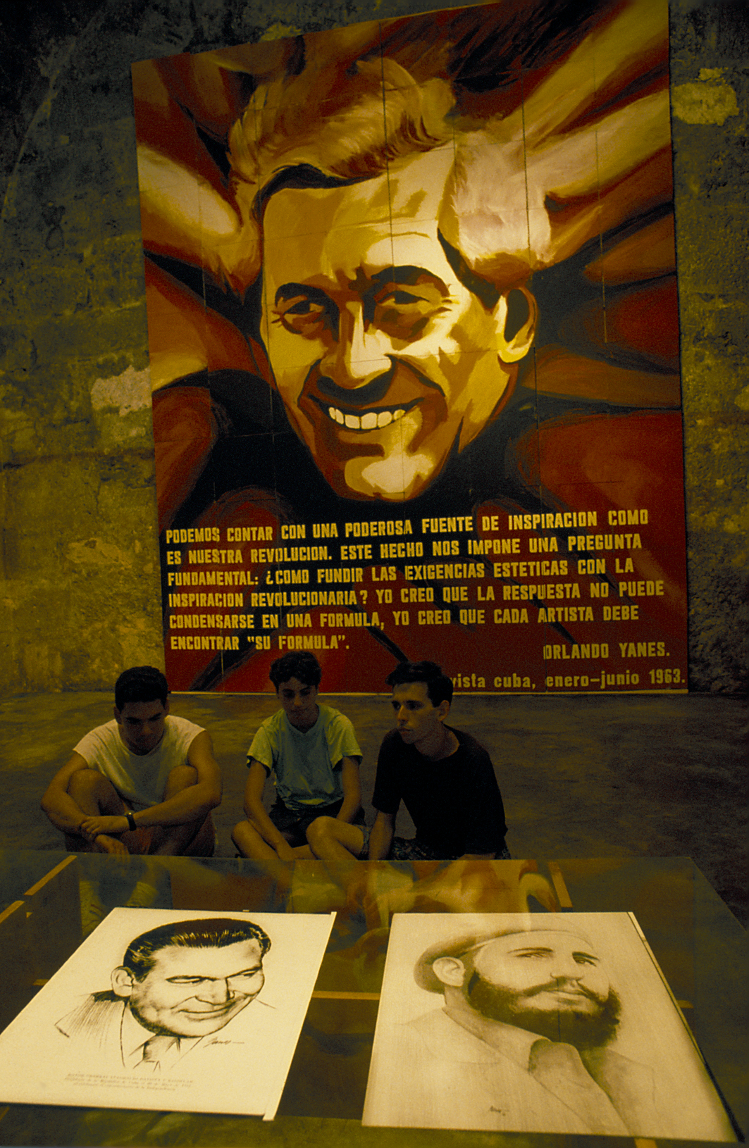 Instalation